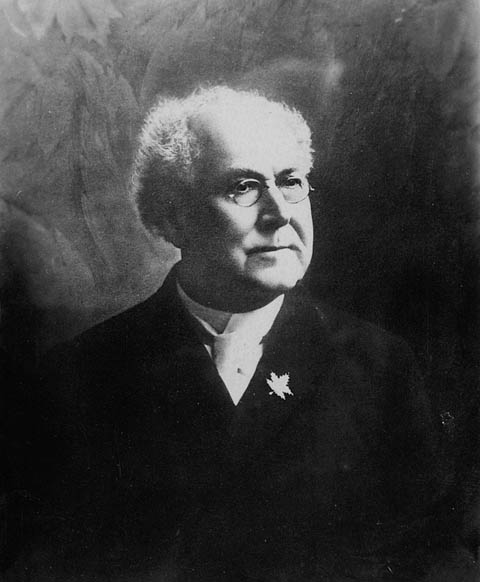 Alexander Muir, author of "The Maple Leaf Forever", ca. 1901 - 1906